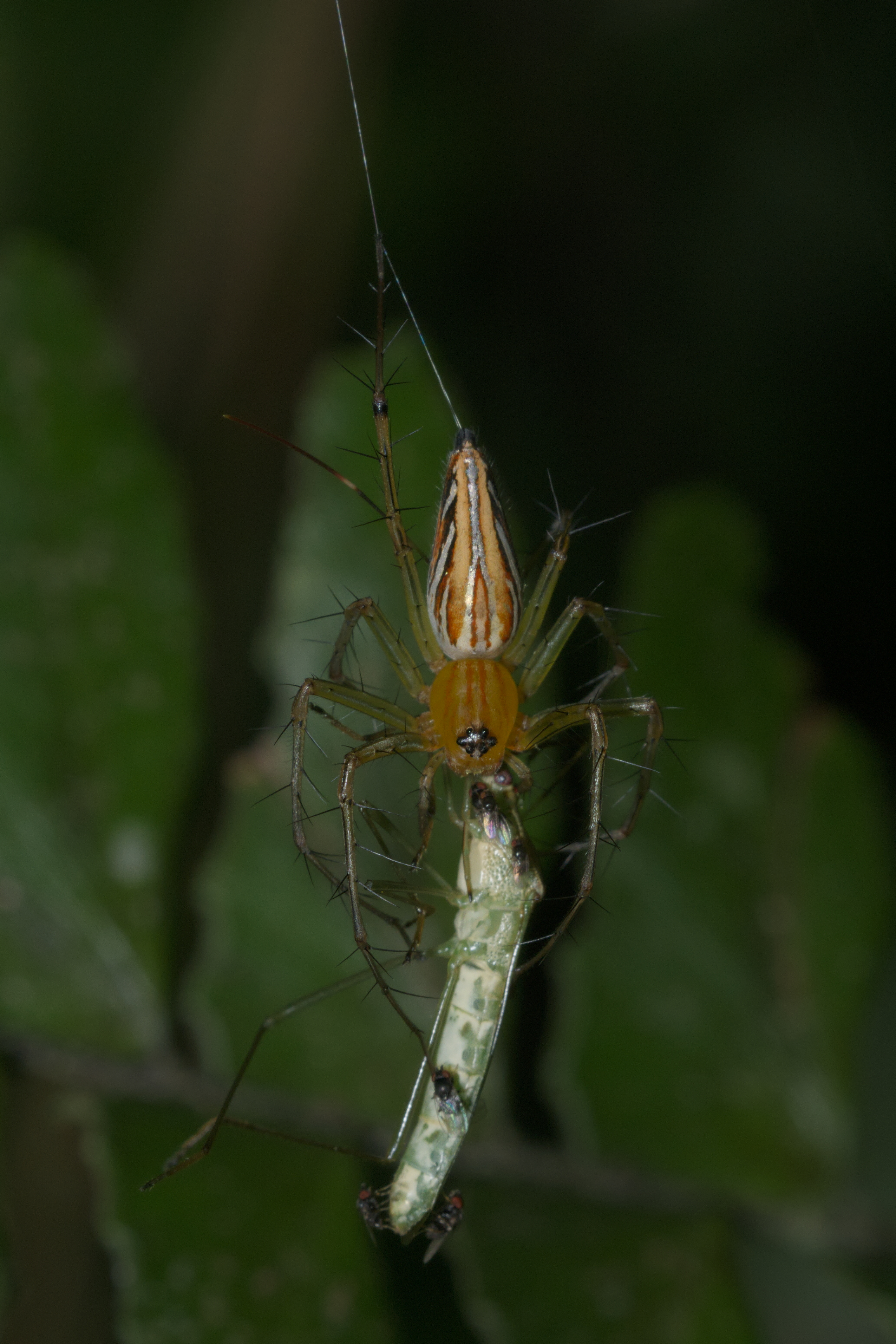 Oxyopes javanus hunting an Alydidae. A lot of Milichiidae also started feeding on the prey. (ID